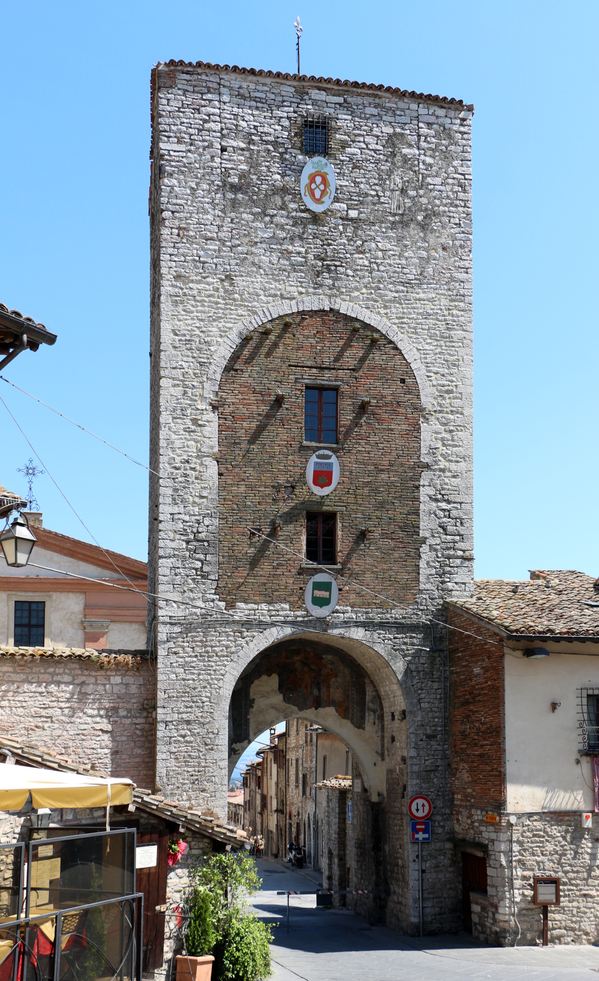 Porta Romana (Gubbio)